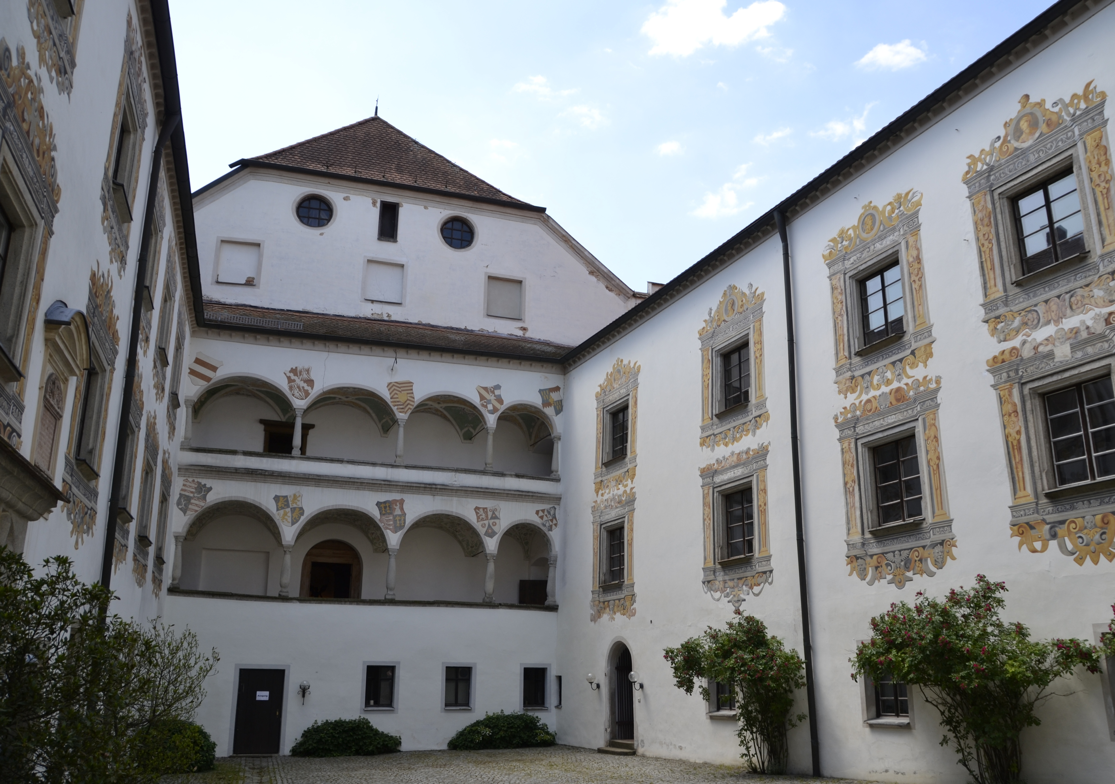 The internal courtyard of Schloss Ortenburg.